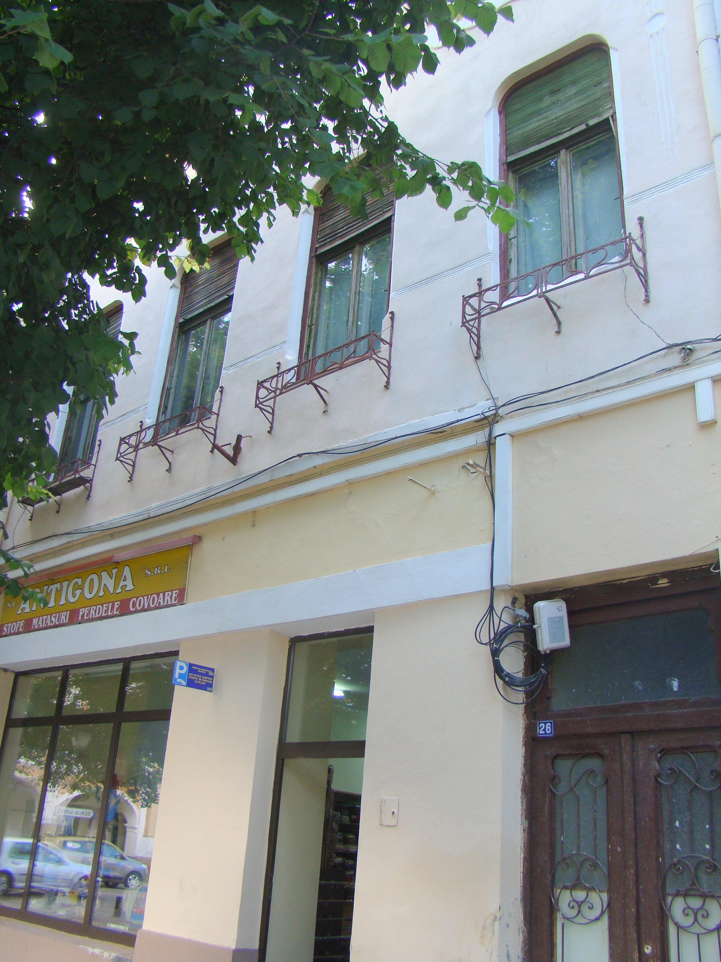 House, historic monument, in Bistrița, Piața Centrală 26